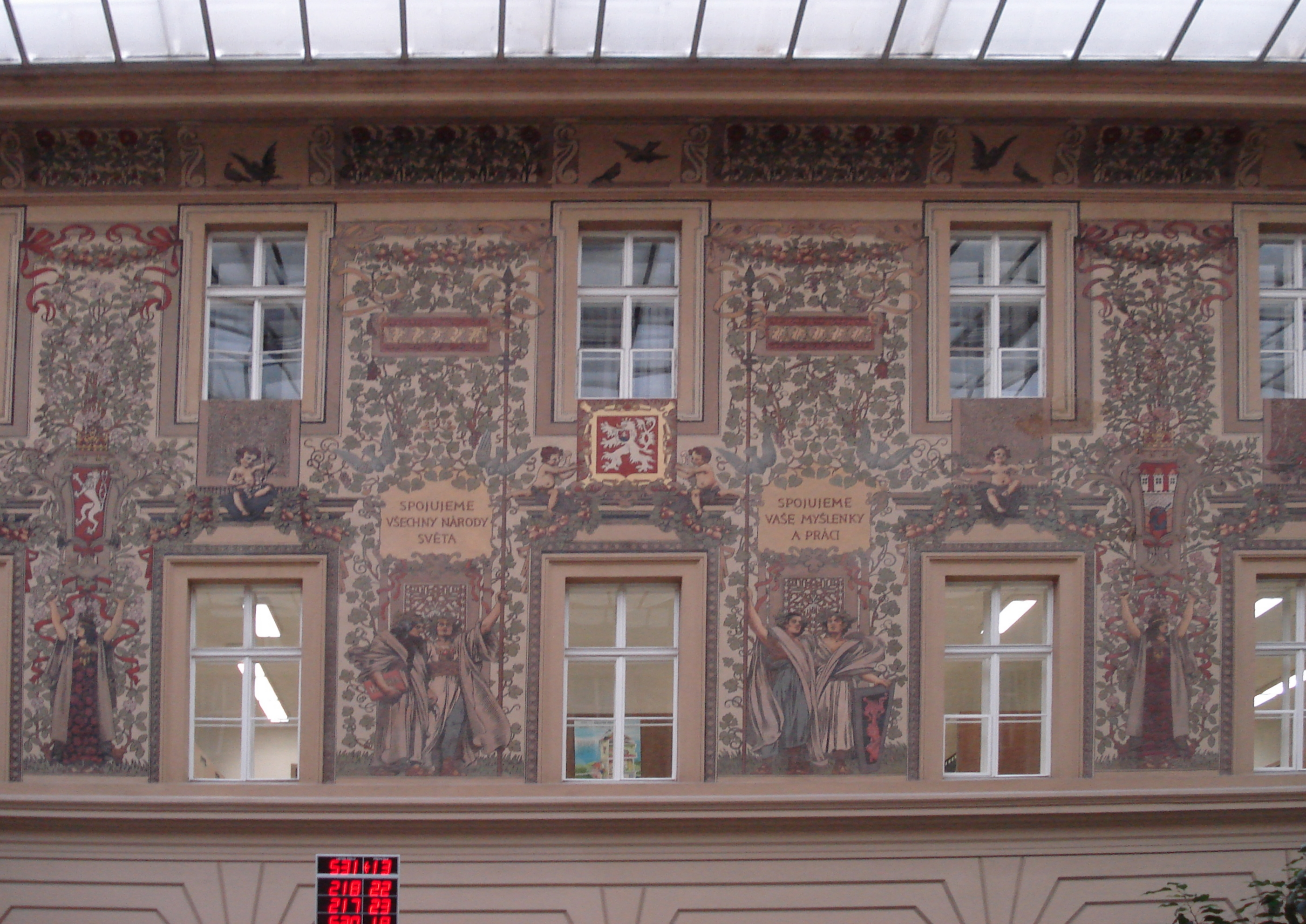 Fresco on the wall of Prague's main post office. Jindrisska street. The slogans read "we link all nations of the World" and "we link work and thoughts".